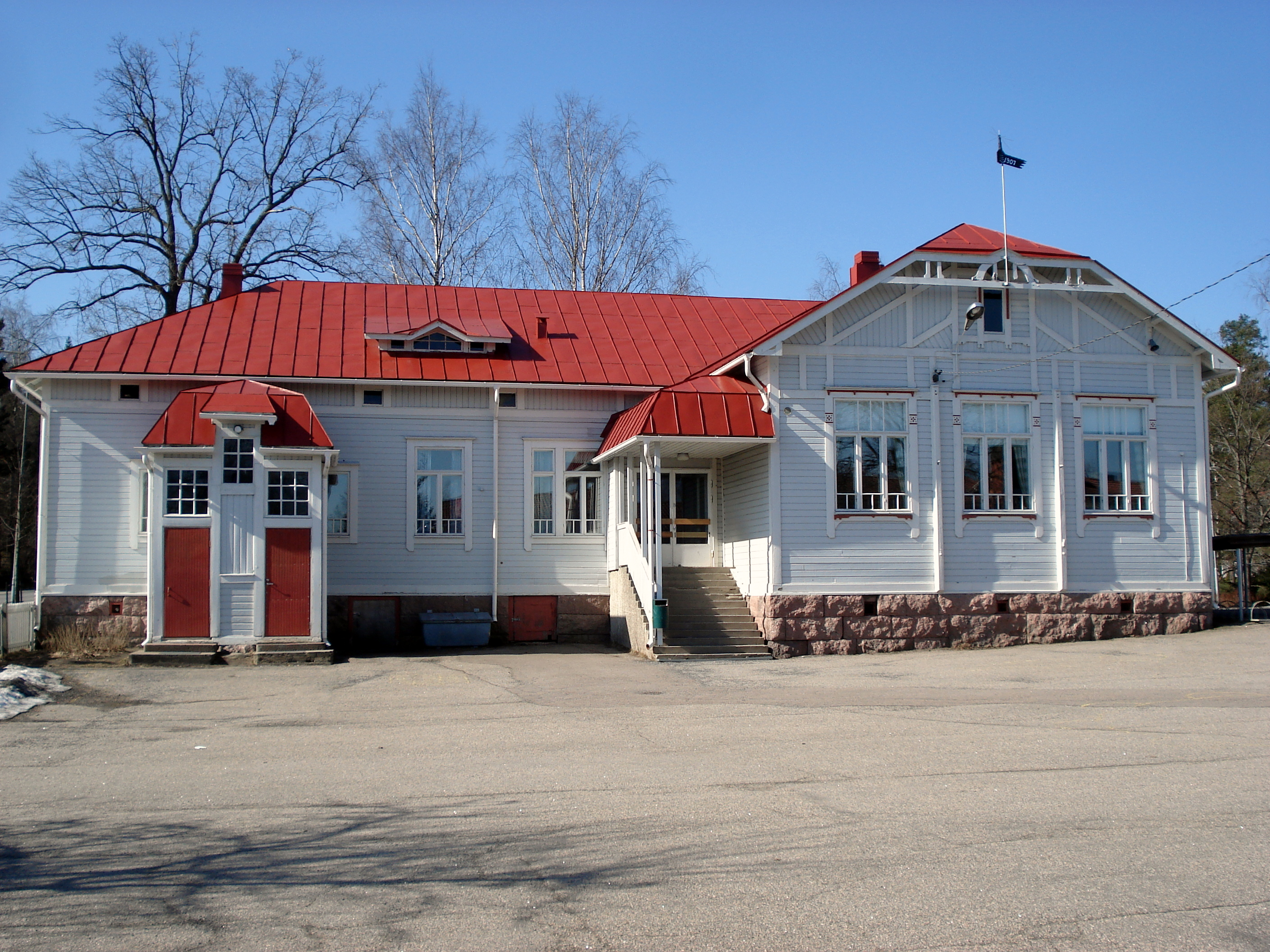 School of Lietsala, district of Lietsala, City of Naantali, Finland.